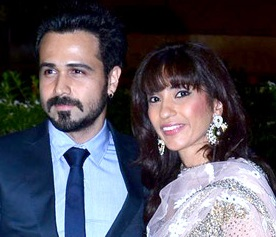 Emraan Hashmi and Parveen Shahani (wife)